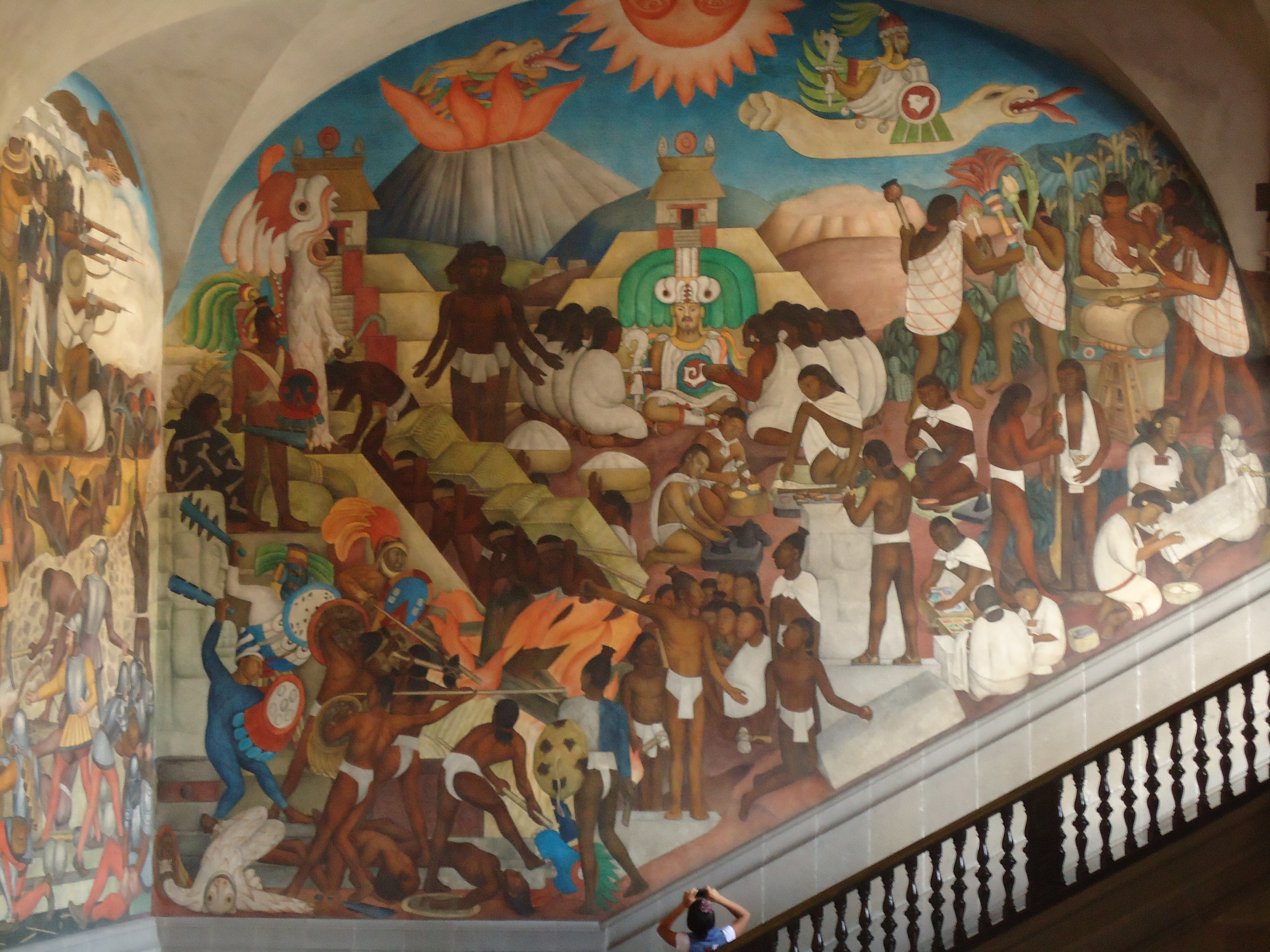 Indian Mexico by Diego Rivera in the Palacio Nacional